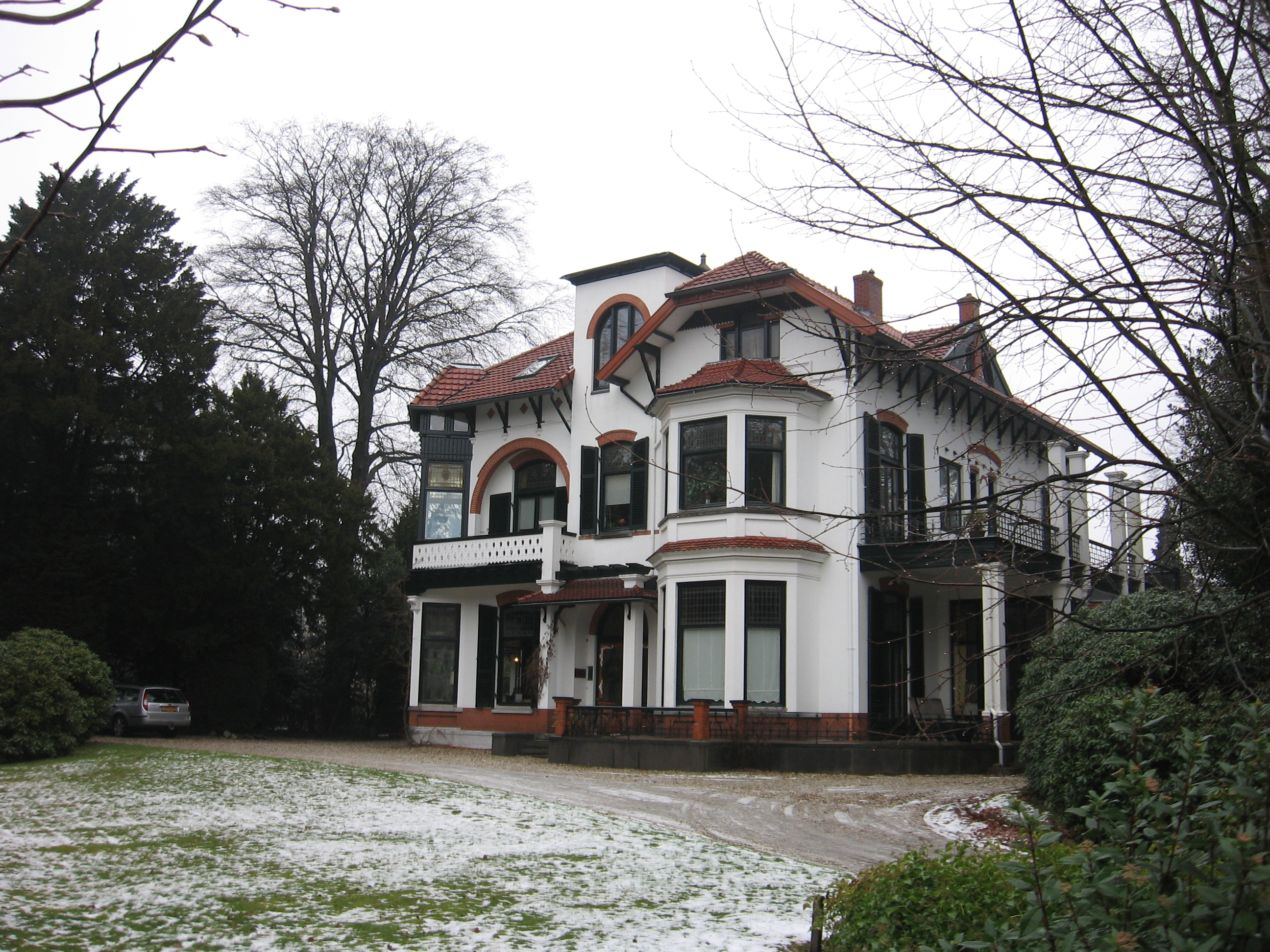 Bussum - Tindal - Nieuwe 's-Gravelandseweg 21